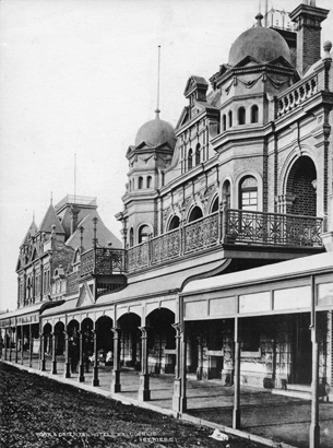 York and Orient Hotels, Kalgoorlie, Western Australia.